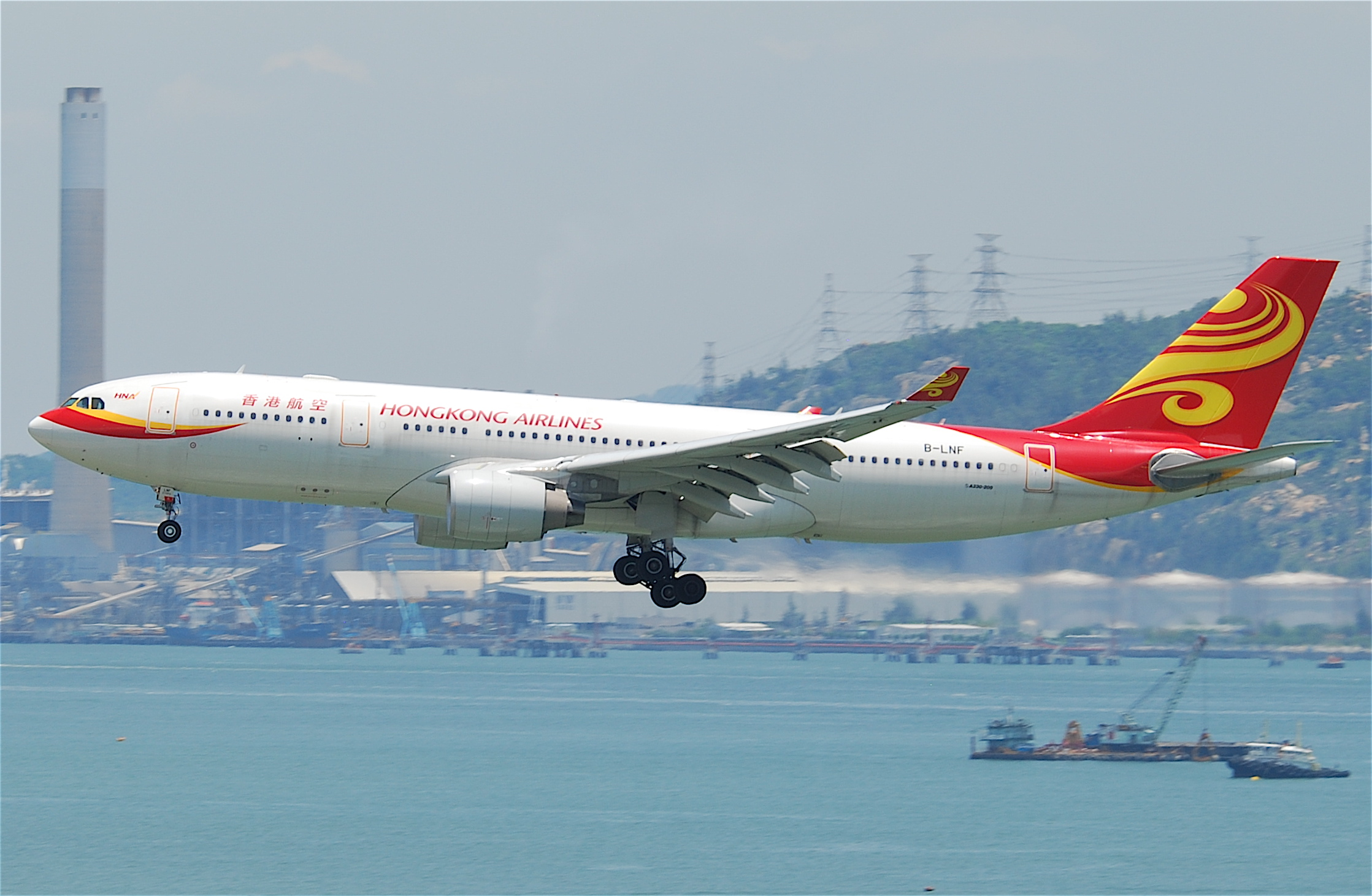 HongKong Airlines Airbus A330-200; B-LNF@HKG;04.08.2011/615hg